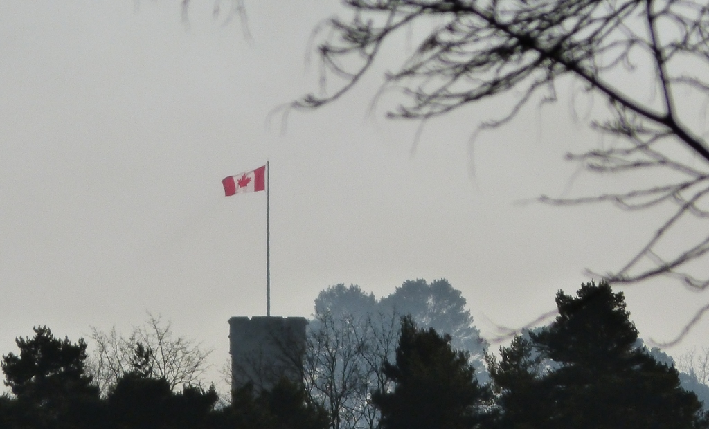 The Fort Belvedere tower, with the flagpole flying the Canadian flag, in Surrey, England. Taken from "High Flyers Hill" in Valley Gardens, above Virginia Water. It and the Fort Belvedere residence are within of Windsor Great Park. The upper part of the tower of the Fort Belvedere is shown with flagpole & Canadian flag.